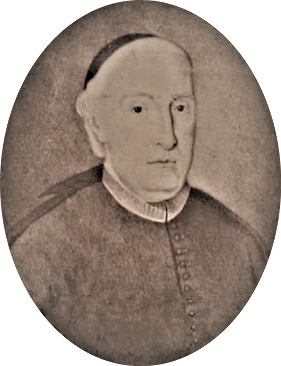 Inácio Barbosa Machado (1686-1776)